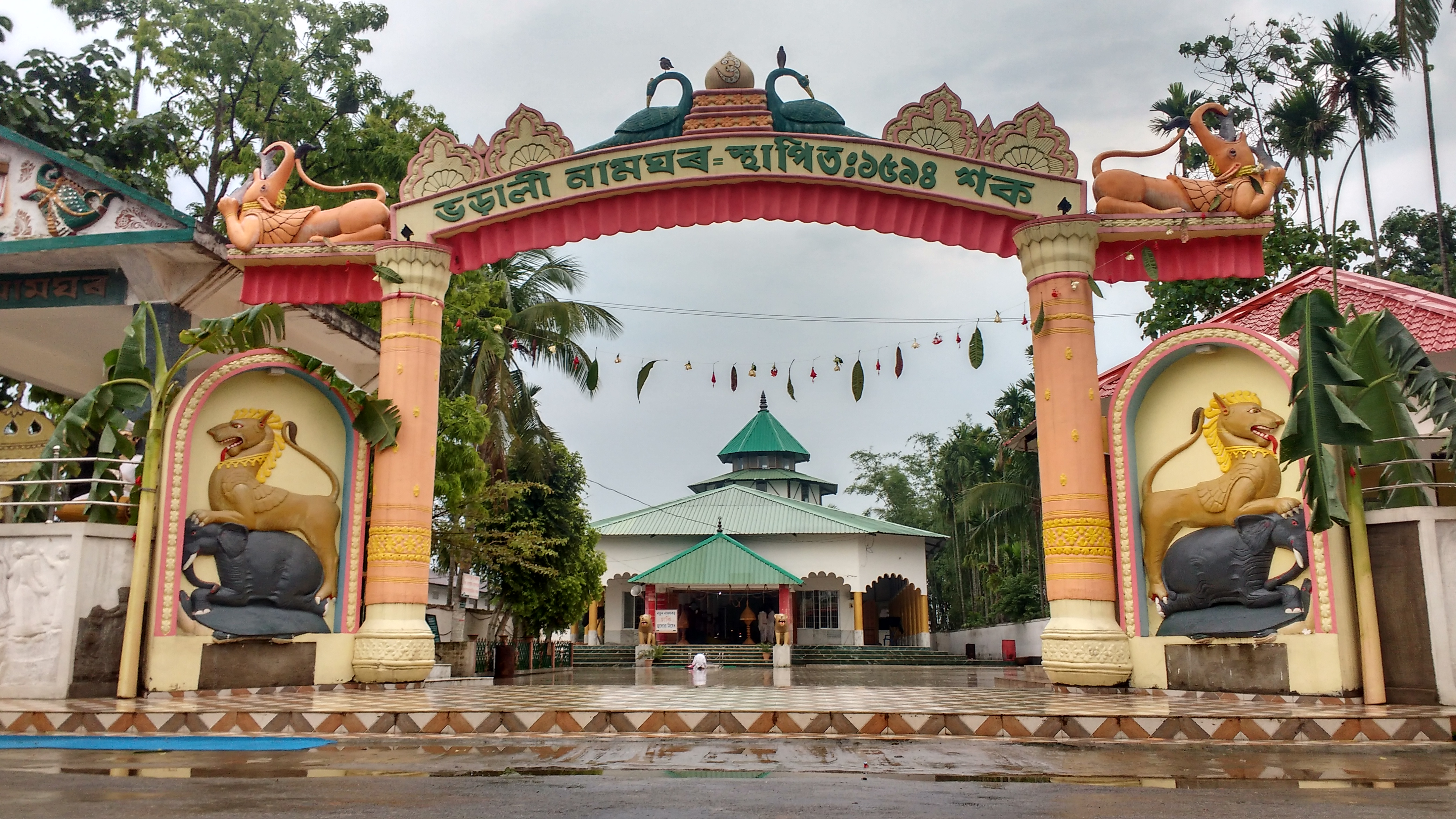 Entrance Gate to the Bharali Naamghar